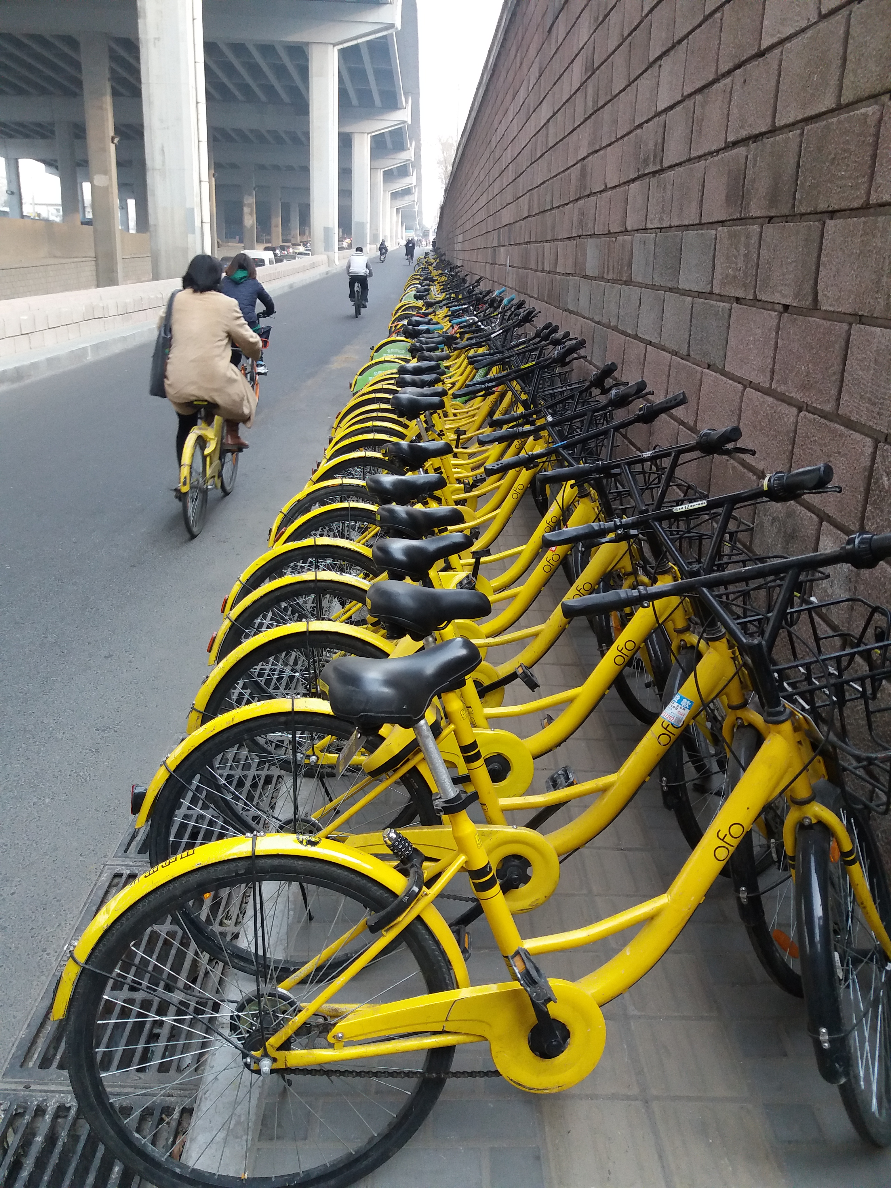 Bikes Ofo put on sidewalks to stop people walking